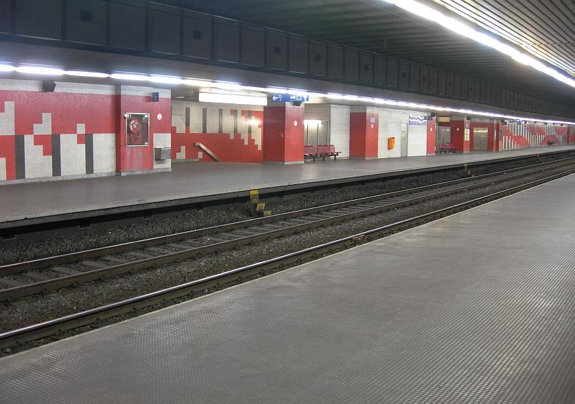 Platforms of Merode railway station, Brussels